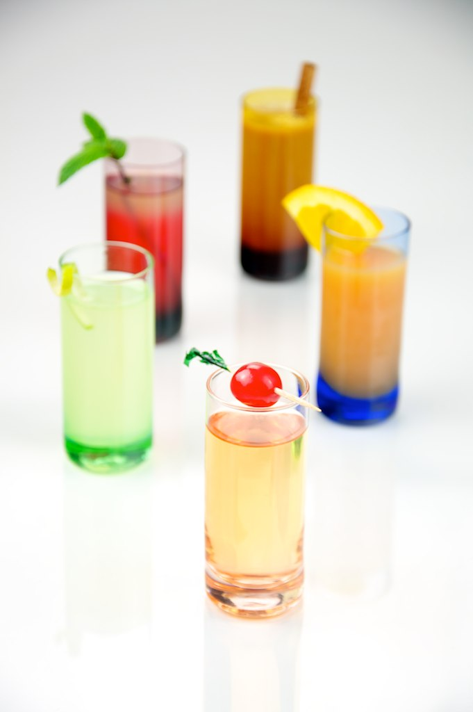 Assorted Shots of Alcoholic Beverages in Multi-colored Shot glasses.